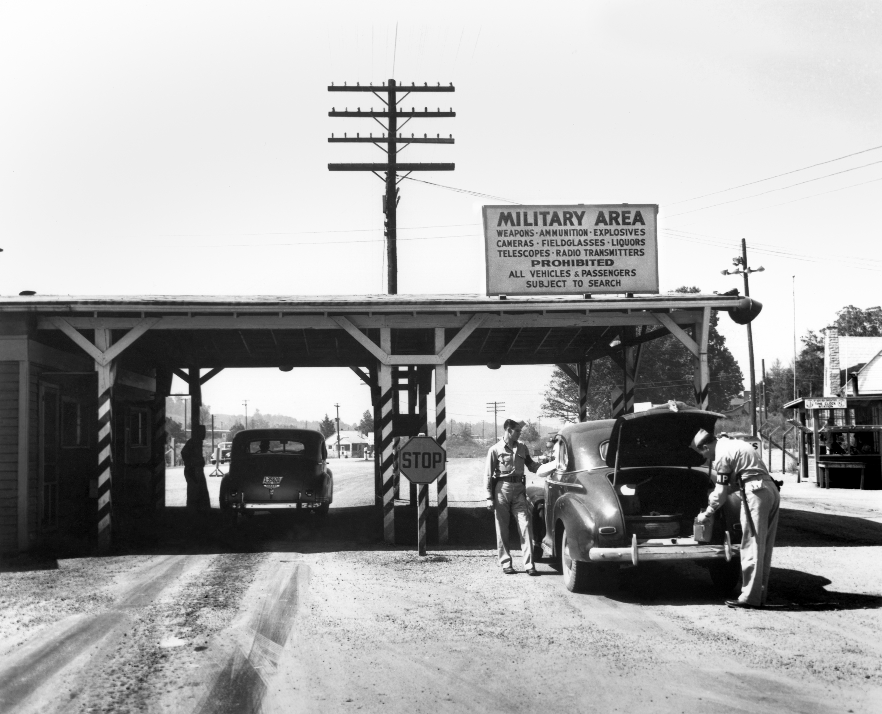 Elza gate entrance to the Clinton Engineer Works, 1945